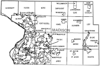 Township map of Madison County, Illinois